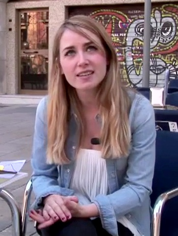 She is big on graphic design and a festival-goer with a biting sense of humour and a tendency towards photosensitivity. Moderna de Pueblo is more than just a comic-book character: she is the voice of many young people in this generation!